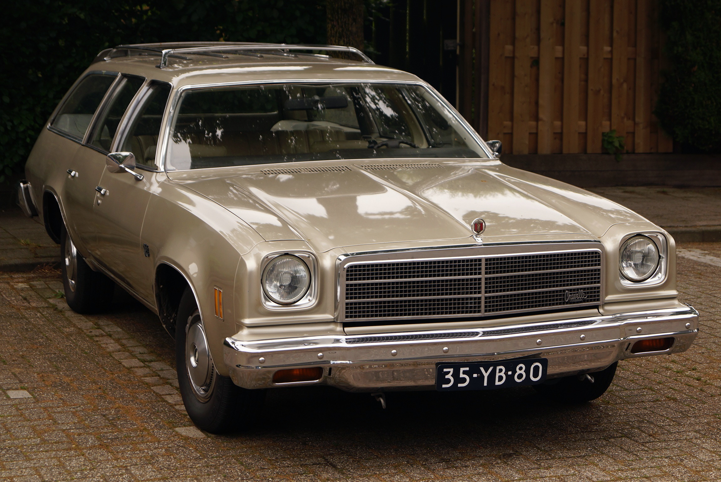 1974 Chevrolet Chevelle Malibu Station Wagon (Dutch registration 35-YB-80) Jan Vermeerstraat, Ede